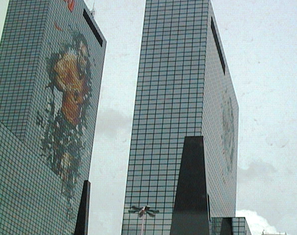 The Nationale Nederlanden building in Rotterdam with Euro 2000 livery depicting Edgar Davids crashing through the building.